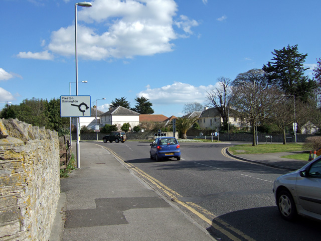 A354 Roundabout on the Outskirts of Preston